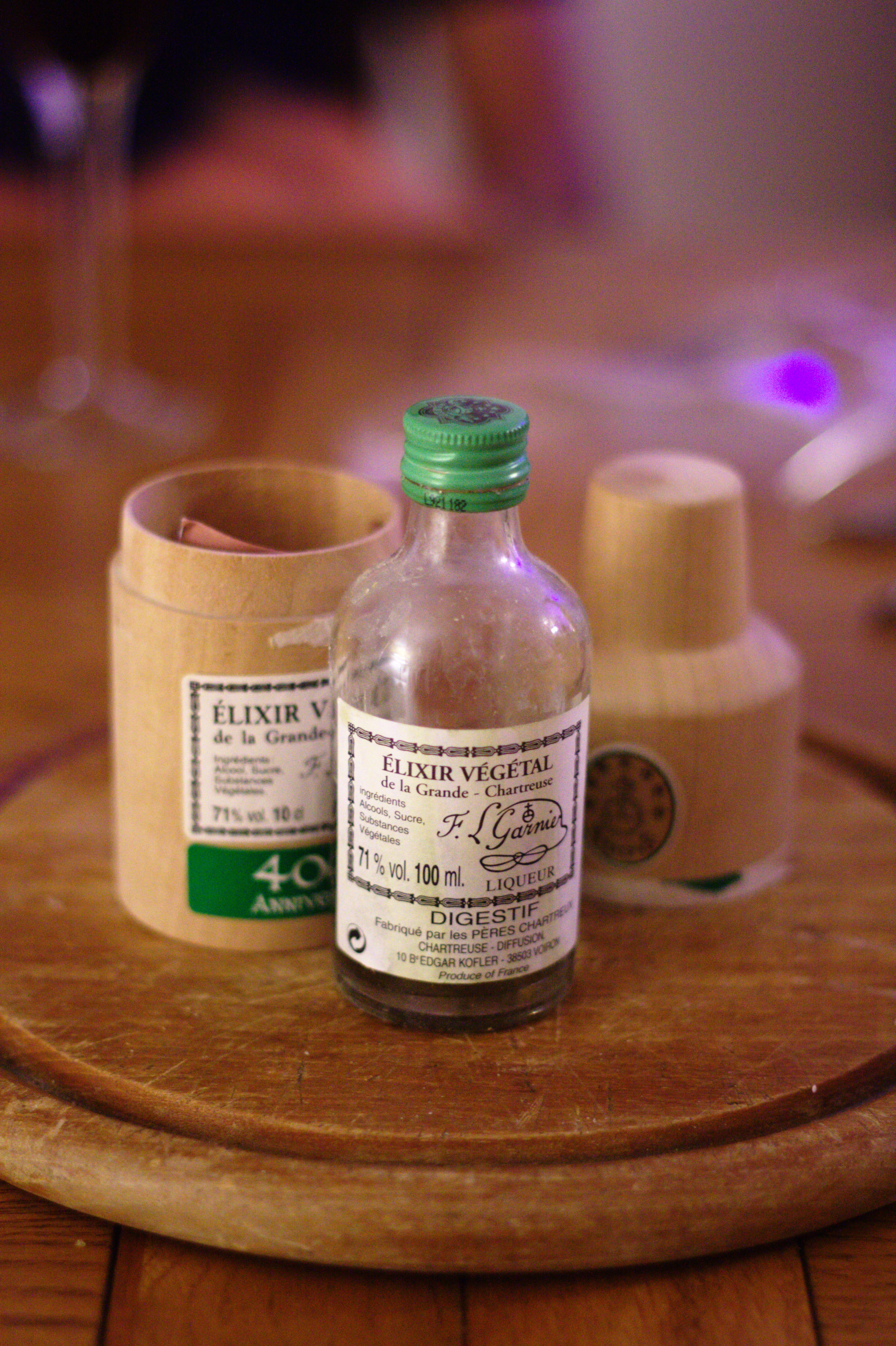 400th anniversary Chartreuse Elixir Vegetal, 71% proof.